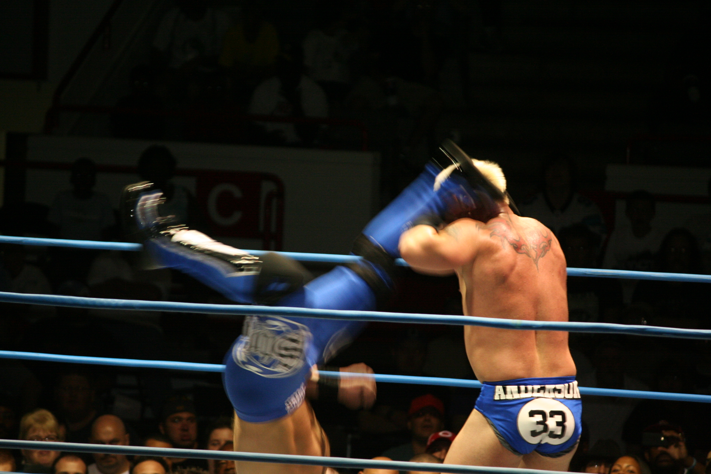 Professional wrestler A.J. Styles performing a Pelé on Mr. Anderson at a TNA live event.